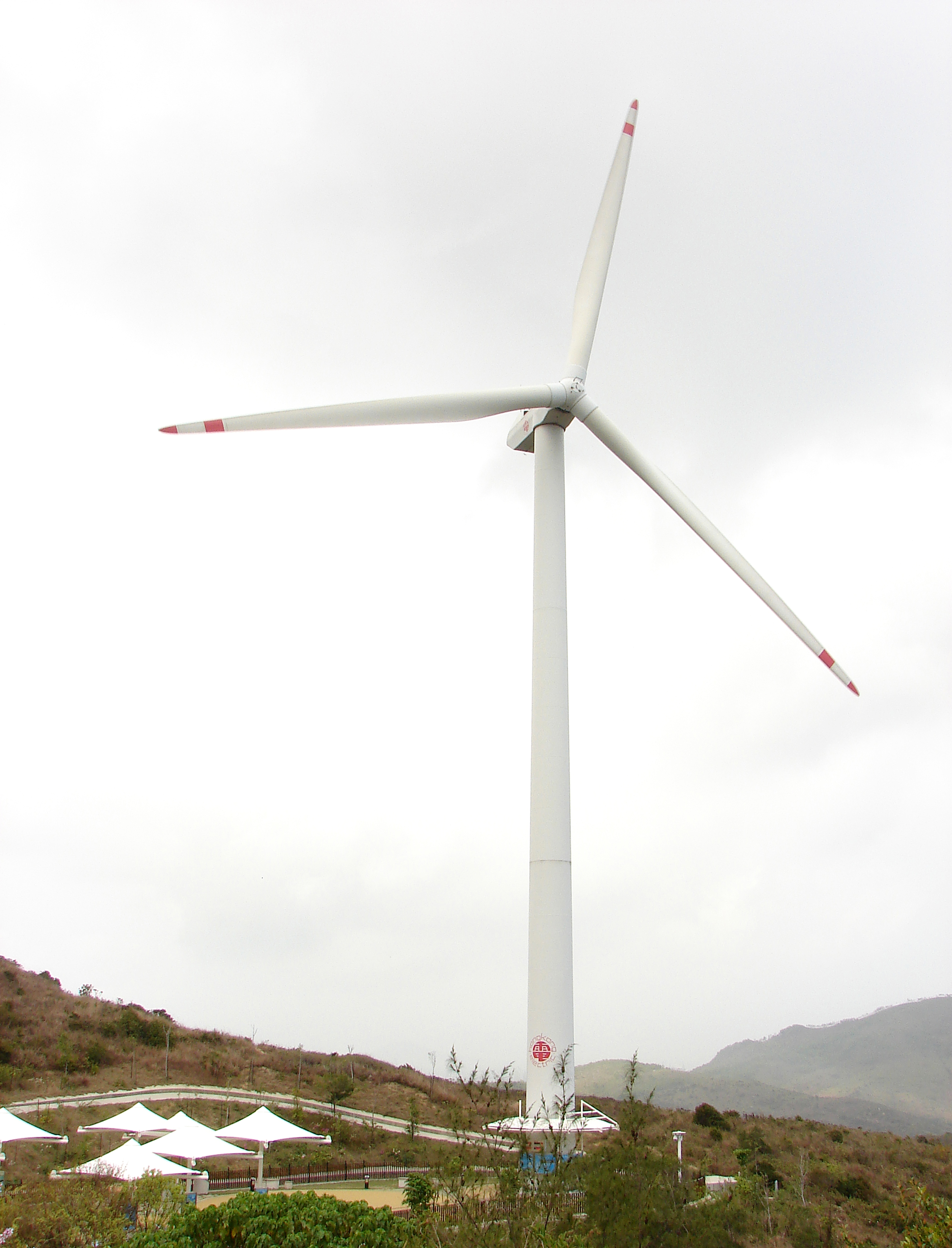 Lamma Winds turbine, Lamma Island, Hong Kong